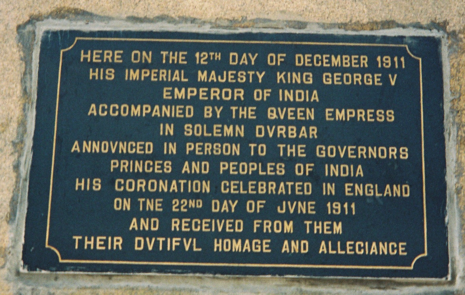 Inscription below the Obelisque at Coronation Park, Delhi